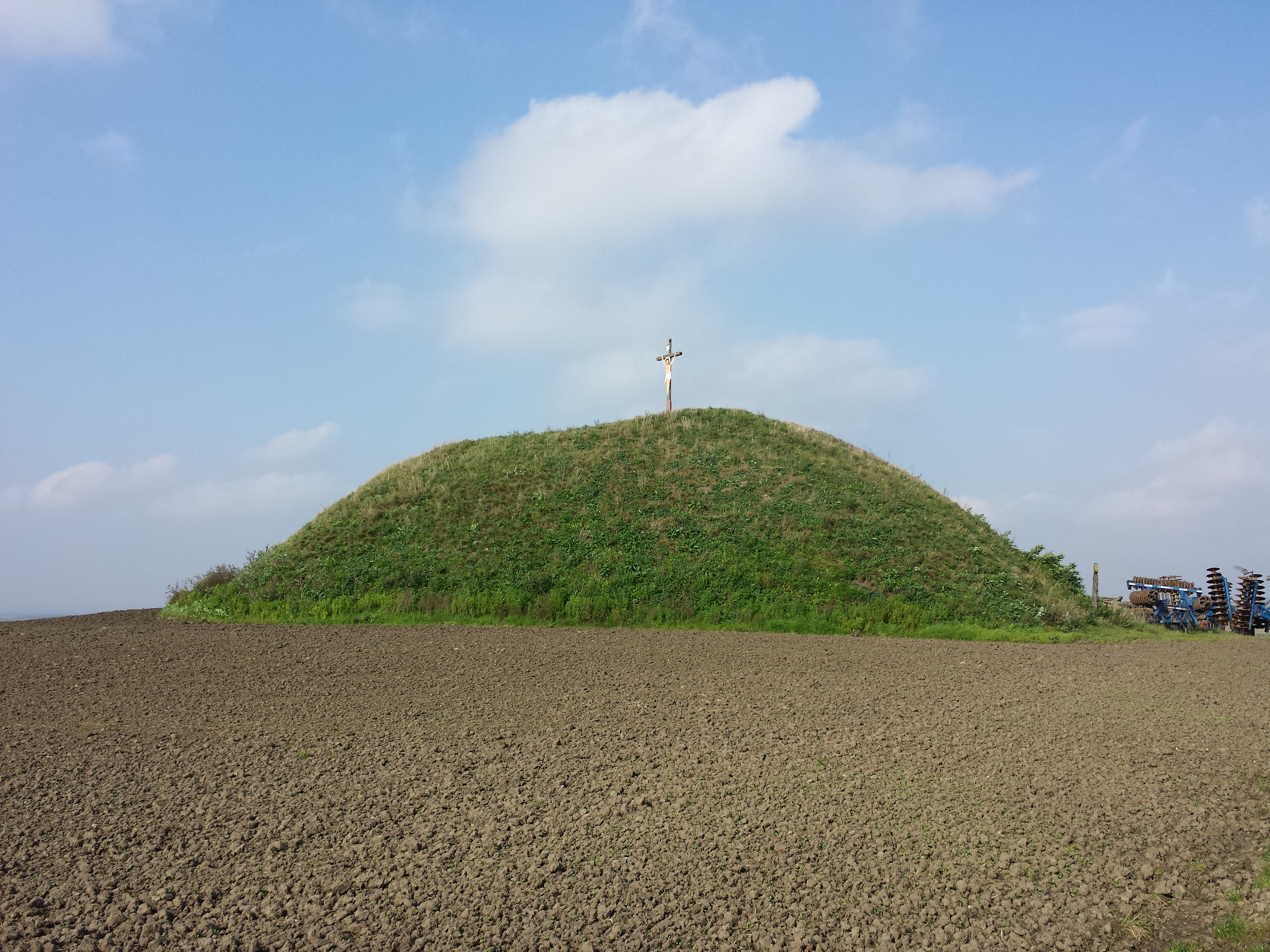 Leeberg north-west of Niederhollabrunn, district Korneuburg, Lower Austria - 237 m a.s.l.